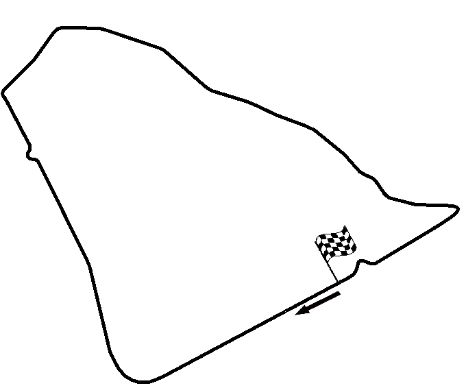 This file shows the layout of the street circuit near the ancient city of Carthage that was used during the Tunis Grand Prix between 1931 and 1937.